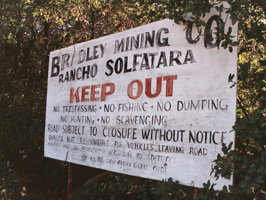 Closeup shot of Bradley Mining Company sign showing Spanish name of property.